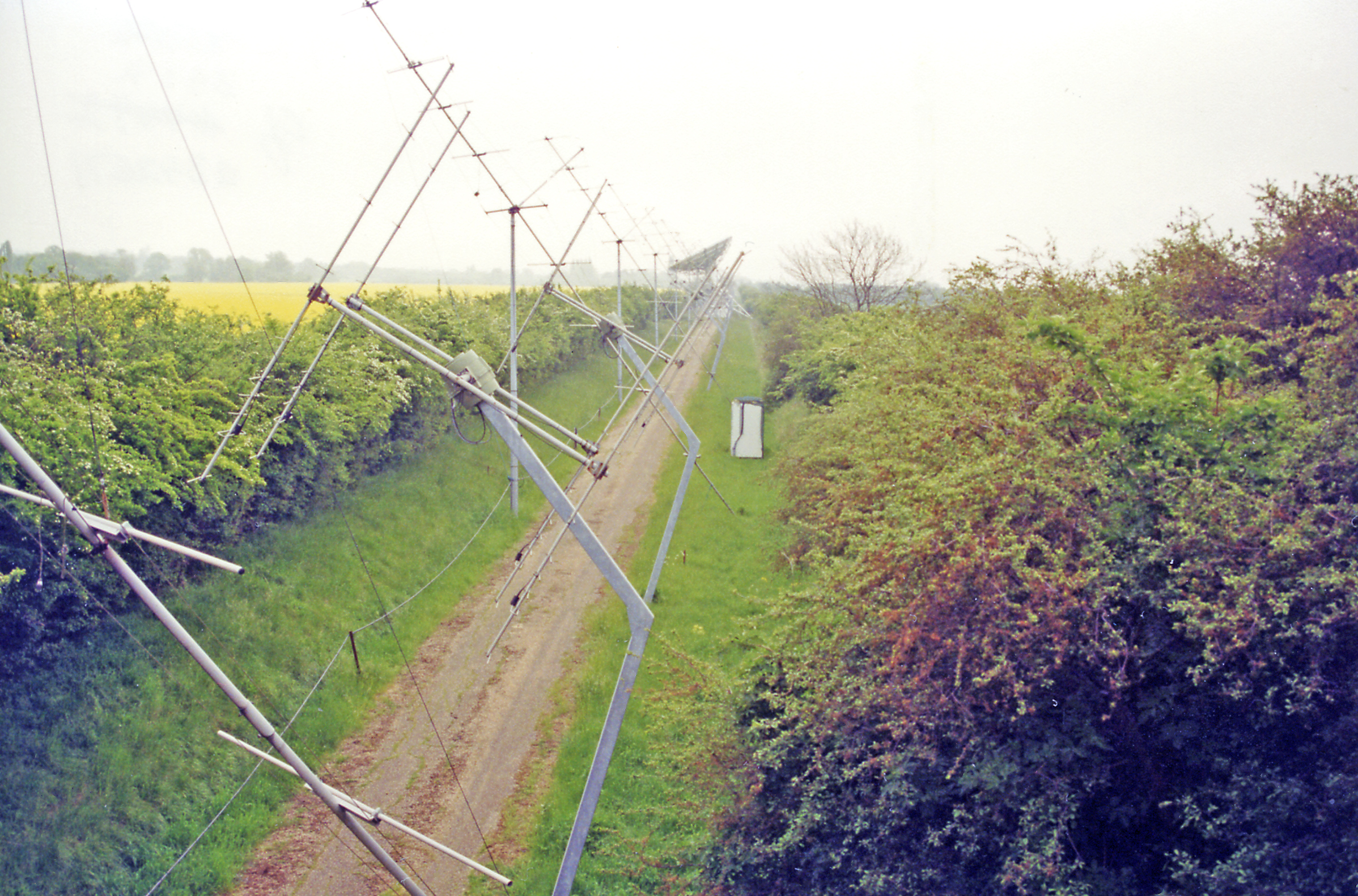 Mullard Radio-Astronomy Array, on railway trackbed west of Lords Bridge. View eastward from a minor road bridge west of Lords Bridge: ex-LNW Cambridge - Bedford - Bletchley line, closed Cambridge - Bedford 1/1/68. Later in 1968 the University of Cambridge Mullard Radio Astronomy Observatory set up their Half-Mile Telescope, then in 1971 their Ryle Telescope, along this absolutely straight stretch of the trackbed